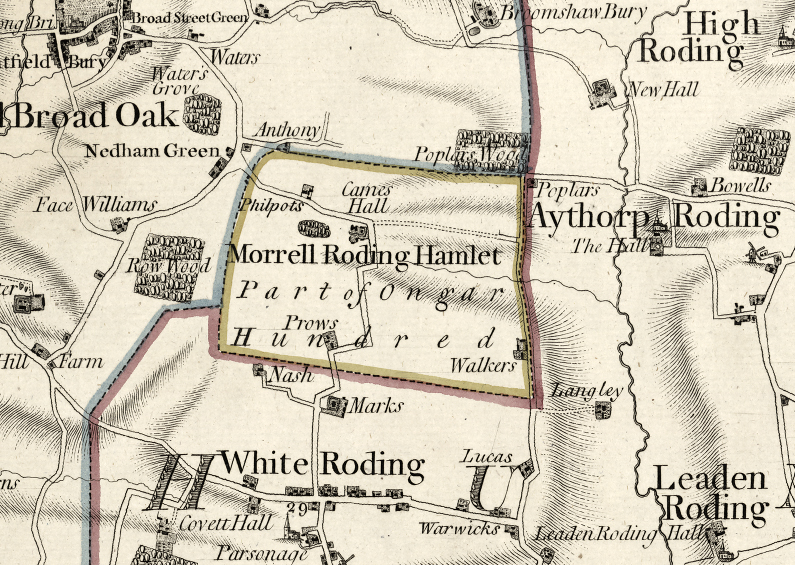 1777 Chapman and André map of Morrel Roding in Uttlesford, Essex, England.